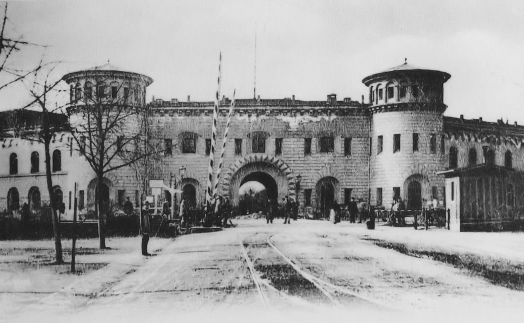 Mainzer Tor of Koblenz